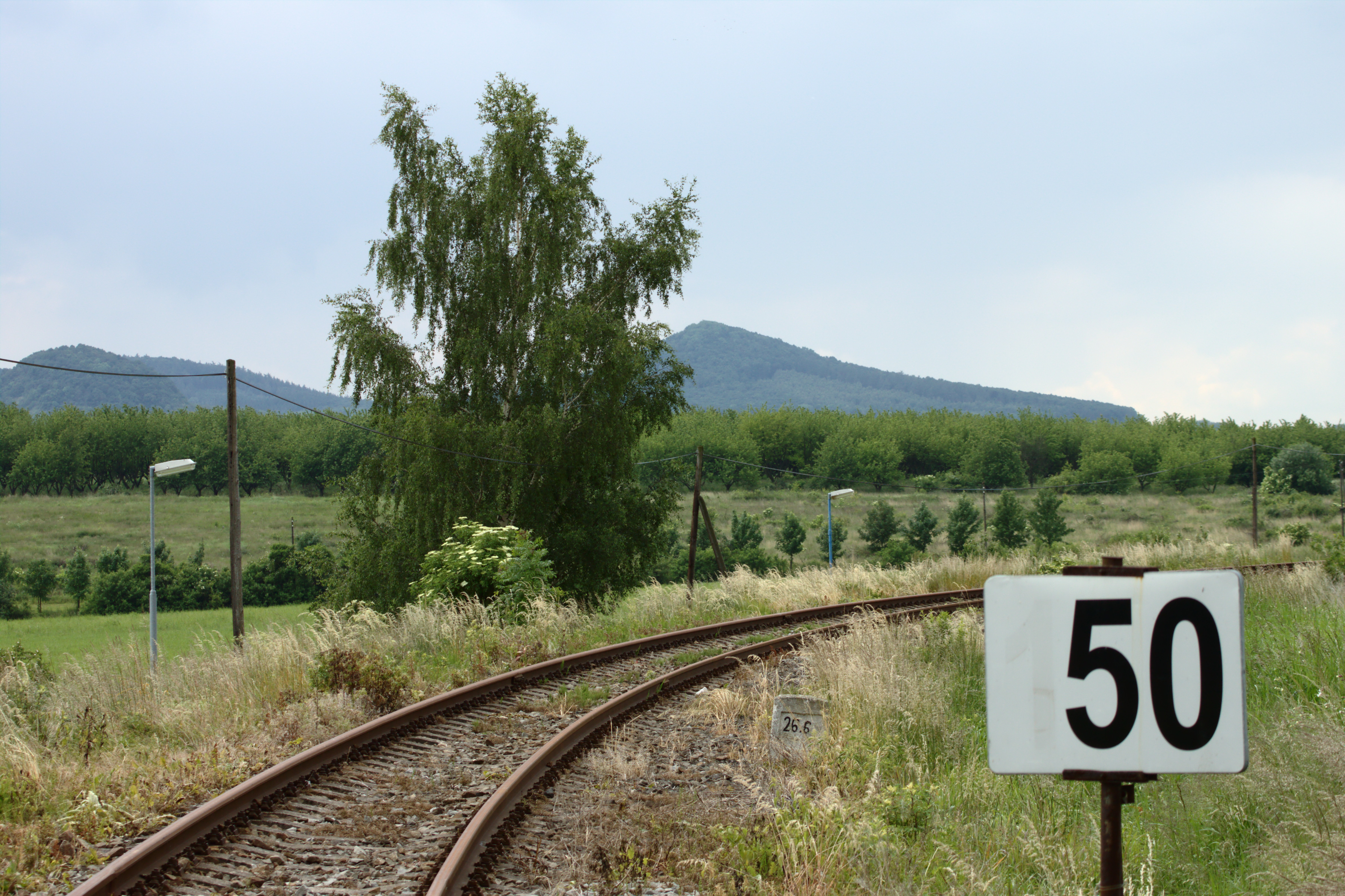 A train track in Chotiměř, Ústí Region, CZ